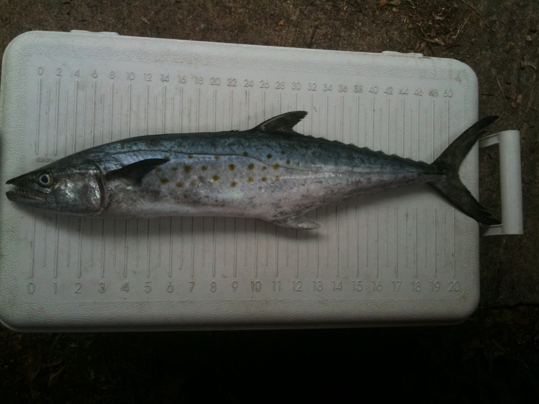 Spanish Mackerel (Scomberomorus brasiliensis) caught in the Gulf of Mexico out of St. Marks, FL.